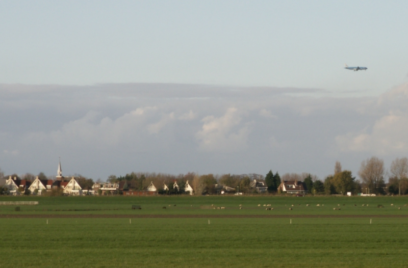 Foto of balgstuw at the city of Ramspol